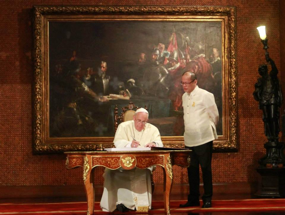 President Benigno S. Aquino III witnesses as His Holiness Pope Francis signs the Palace Guestbook at the Reception Hall of the Malacañan Palace during the State Visit and Apostolic Journey to the Republic of the Philippines on Friday (January 16, 2015)